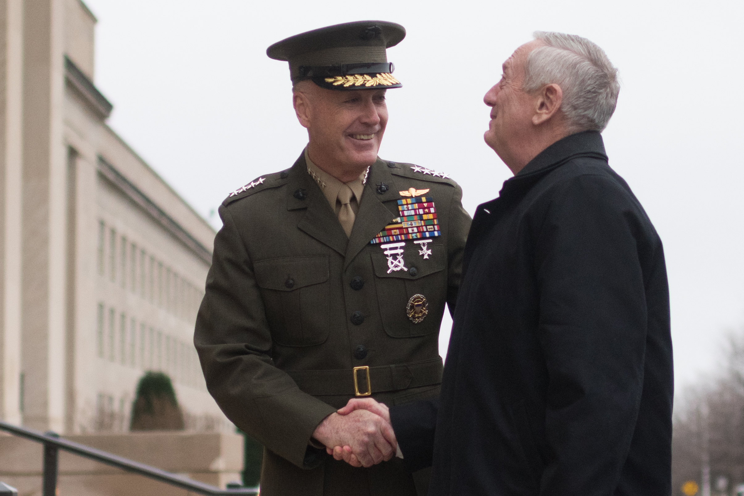 The 26th Secretary of Defense, James Mattis, is greeted on his first full day in the position by Chairman of the Joint Chiefs of Staff, Gen. Joseph F. Dunford Jr., in Arlington, VA, Jan. 21, 2017. DoD photo by D. Myles Cullen (released)